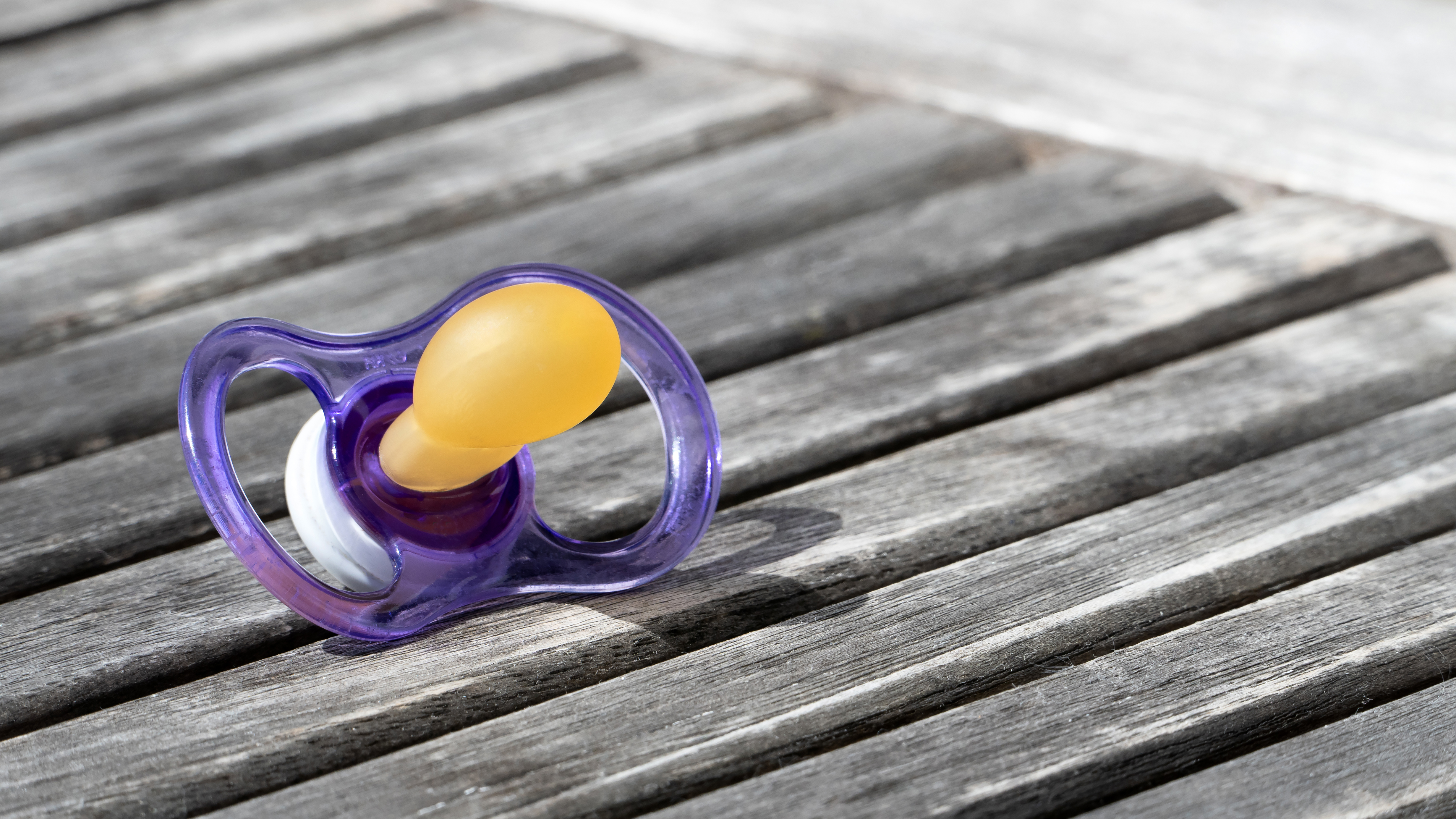 Forgotten plastic pacifier on a wooden table in Röe gård cafe in Röe, Lysekil Municipality, Sweden.